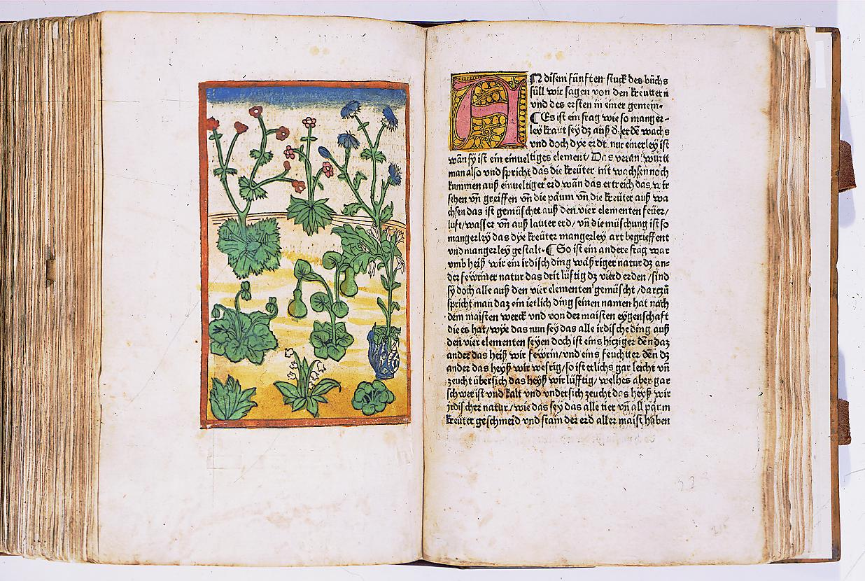 Hand-coloured woodcut from Konrad von Megenberg (1309-1374) - "He nach volget das Puch der Natur" - Augsburg: H. Bamler, 1475 The scholar and cleric Konrad von Megenberg compiled his encyclopedic Book of Nature in the fourteenth century from a number of earlier authorities. The fifth chapter discusses 89 plant species arranged in no particular order. The woodcuts are the first printed depictions of plants presented for botanical rather than decorative purposes.